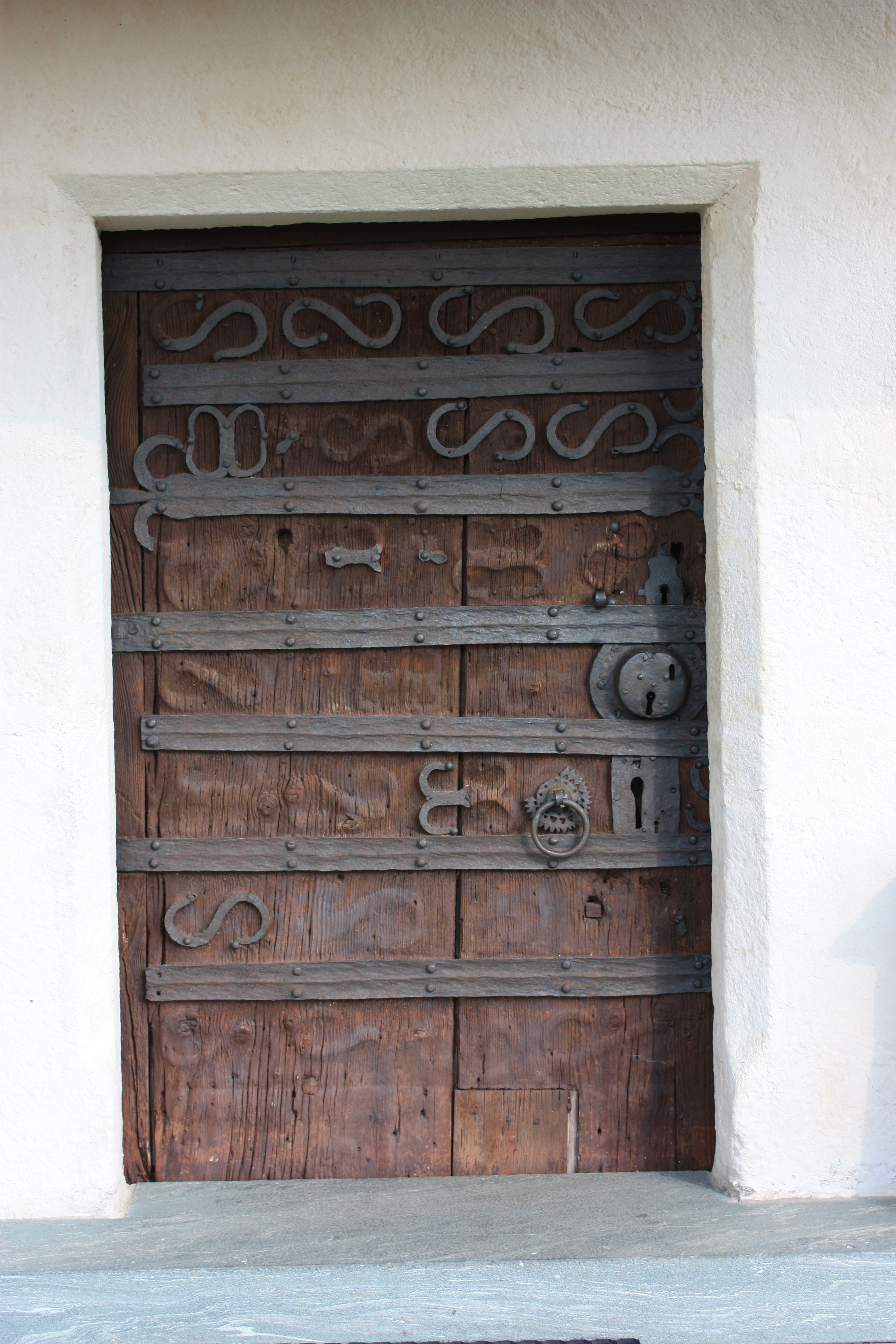 Parish church Sankt Martin - portal Locality:Sankt Martin Community:Kappel am Krappfeld